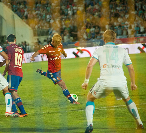 Keisuke Honda goal in CSKA Moscow-Zenit Saint Petersburg, Russian Super Cup 2013